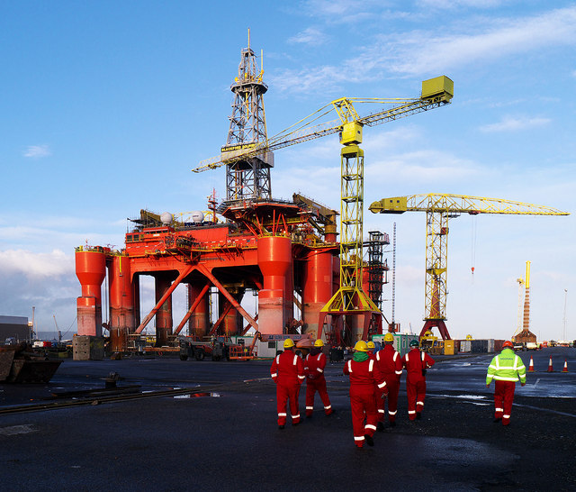 The drilling rig 'Blackford Dolphin' in dry dock at Harland and Wolff in Belfast.